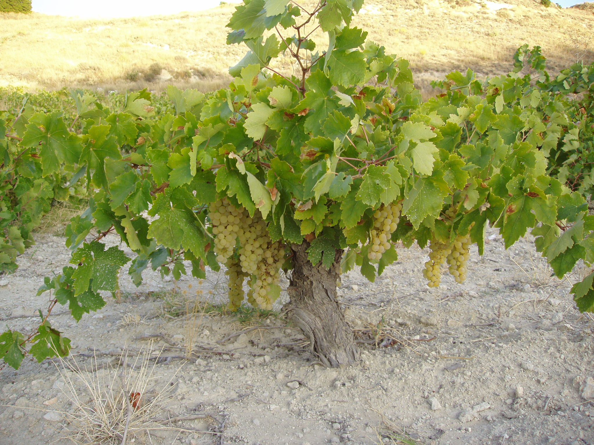 This is a 60-yr old Airén vine, near the village of Carabaña (Madrid, Spain)